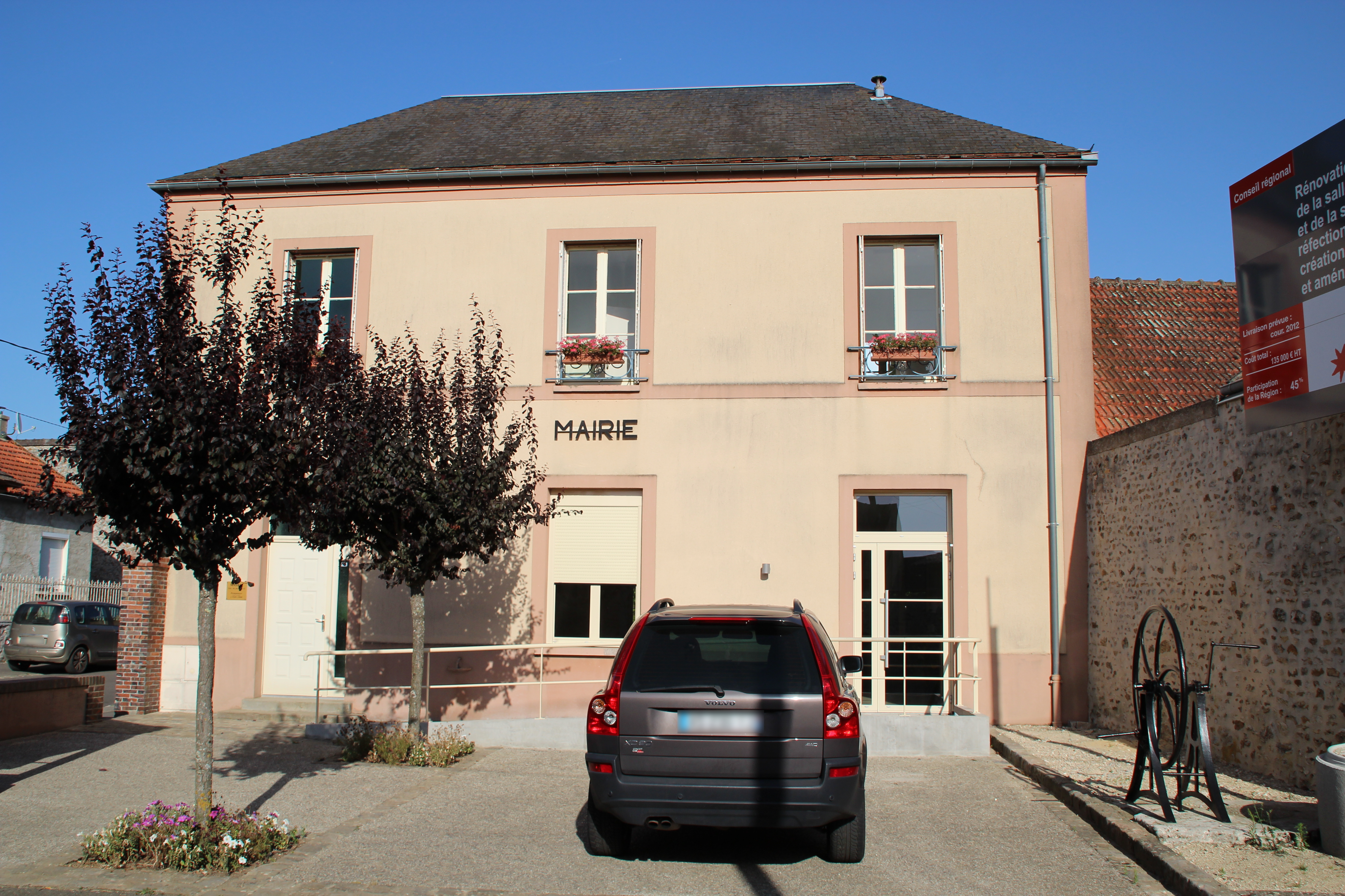 Town hall of Orsonville, France. Object location48° 28′ 35.44″ N, 1° 50′ 10.81″ E